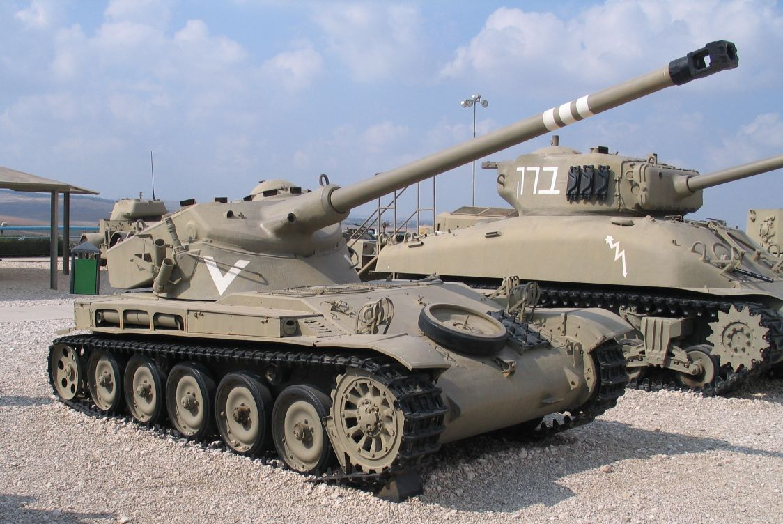 Description: AMX-13 light tank in Yad la-Shiryon Museum, Israel. 2005. Source: Photo by me, User:Bukvoed